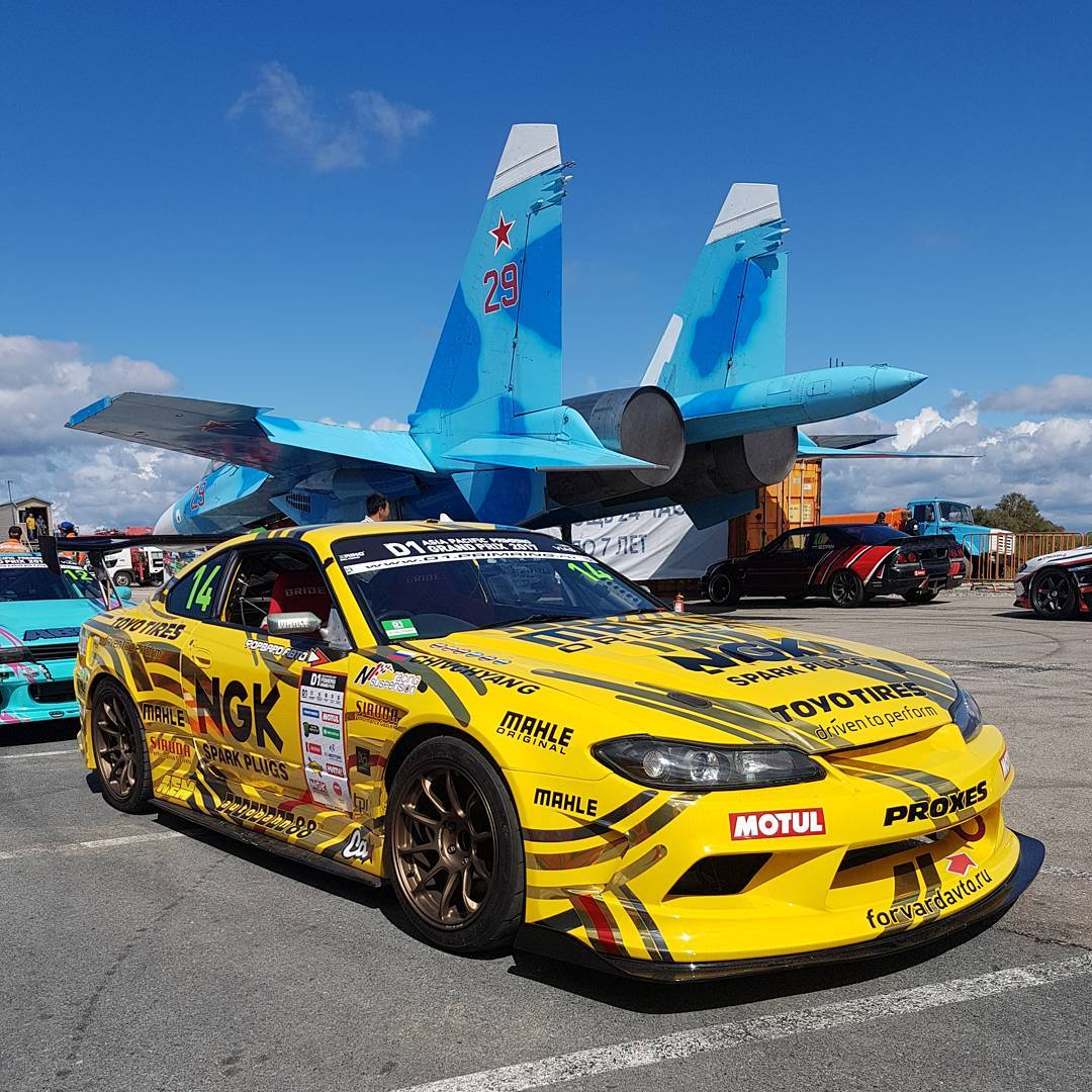 Nissan Silvia s15